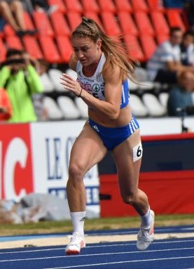 Katerina Dalaka (with the Greek jersey) during 2017 European Team Champioships - Super League